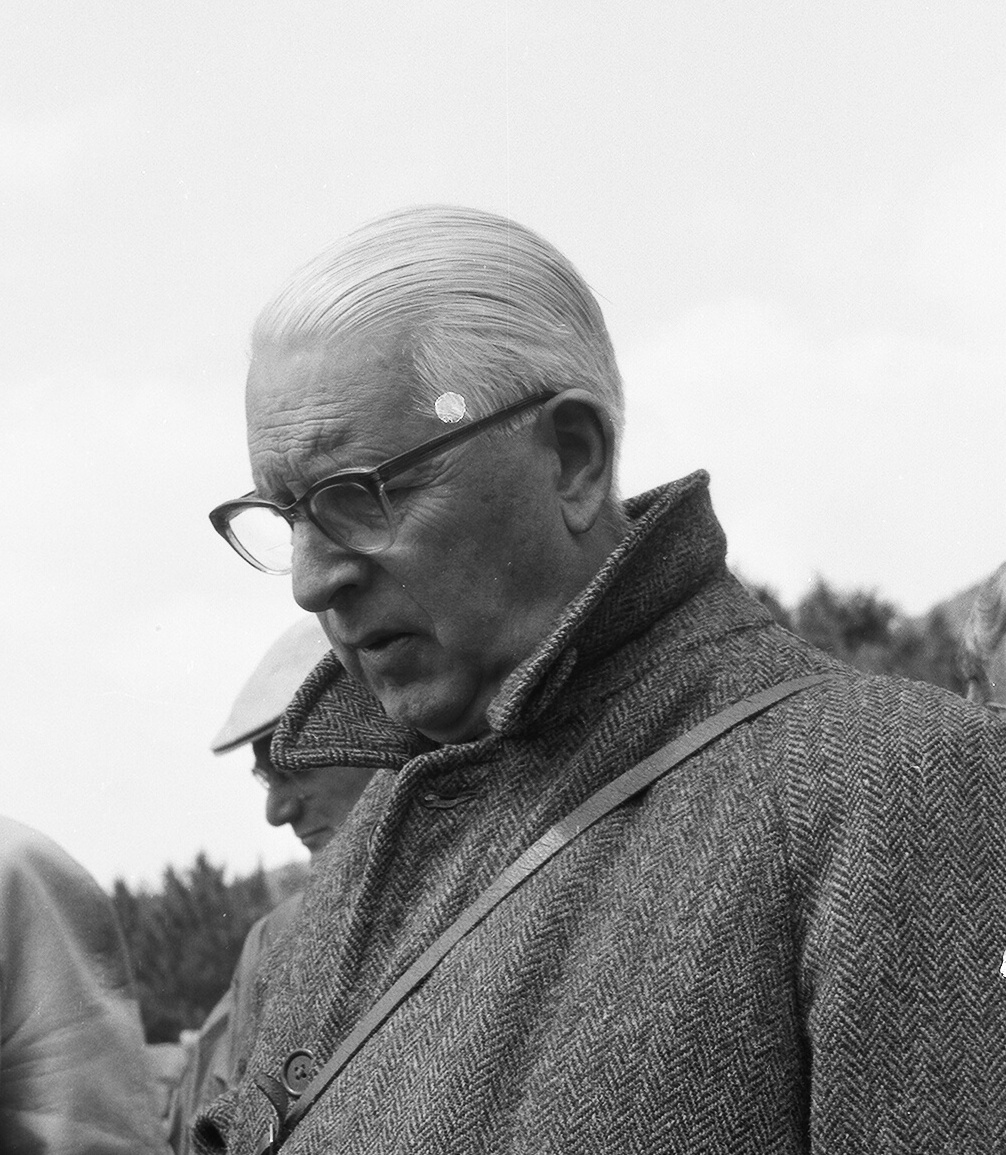 H.J.M. Weve